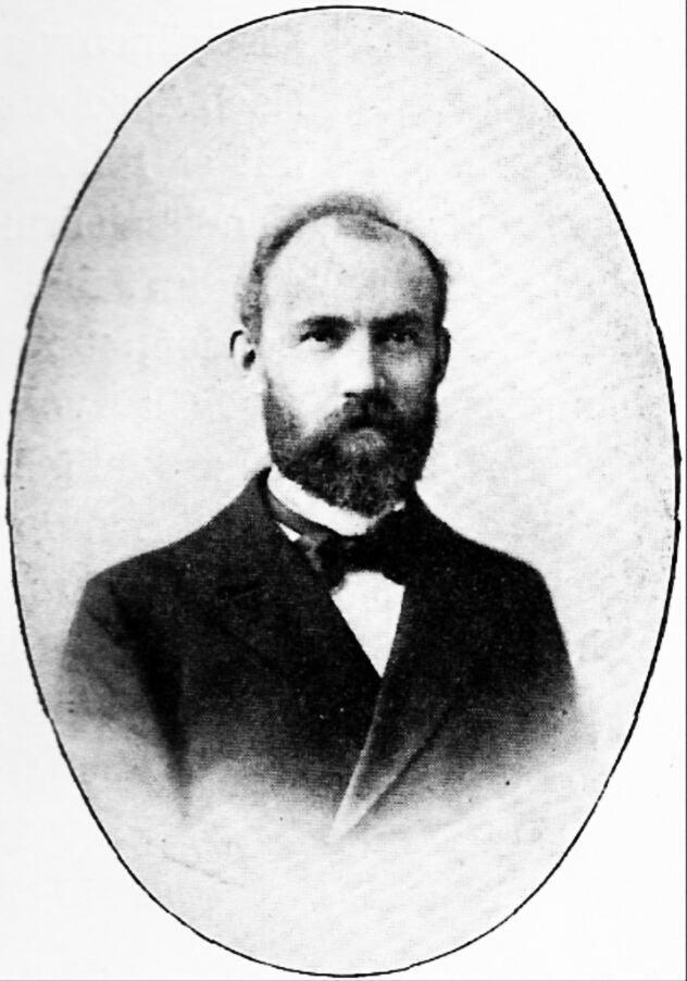 Portrait of Wilhelm Dahms (1859—1939), German bookseller and publisher